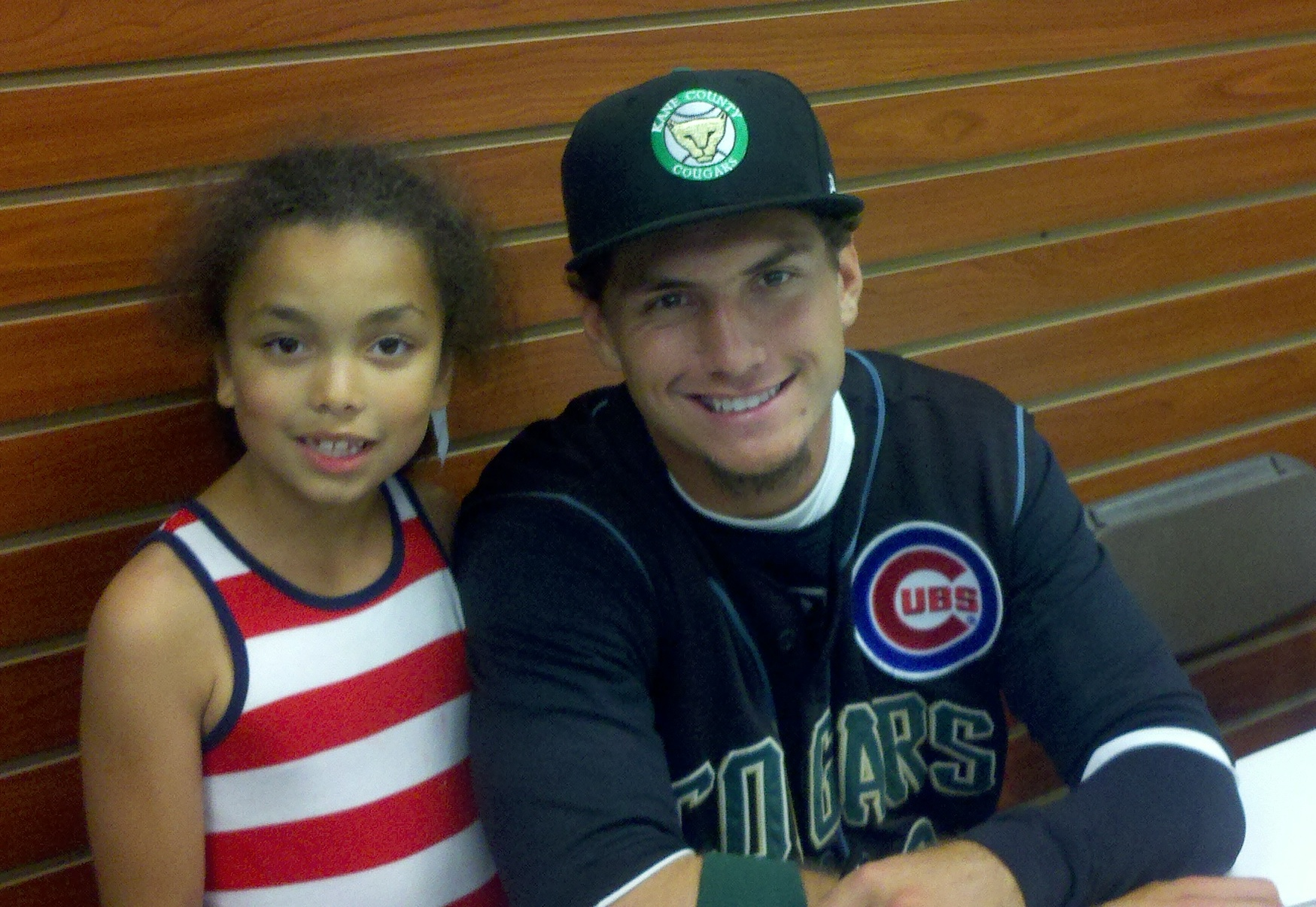 Albert Almora with a young fan